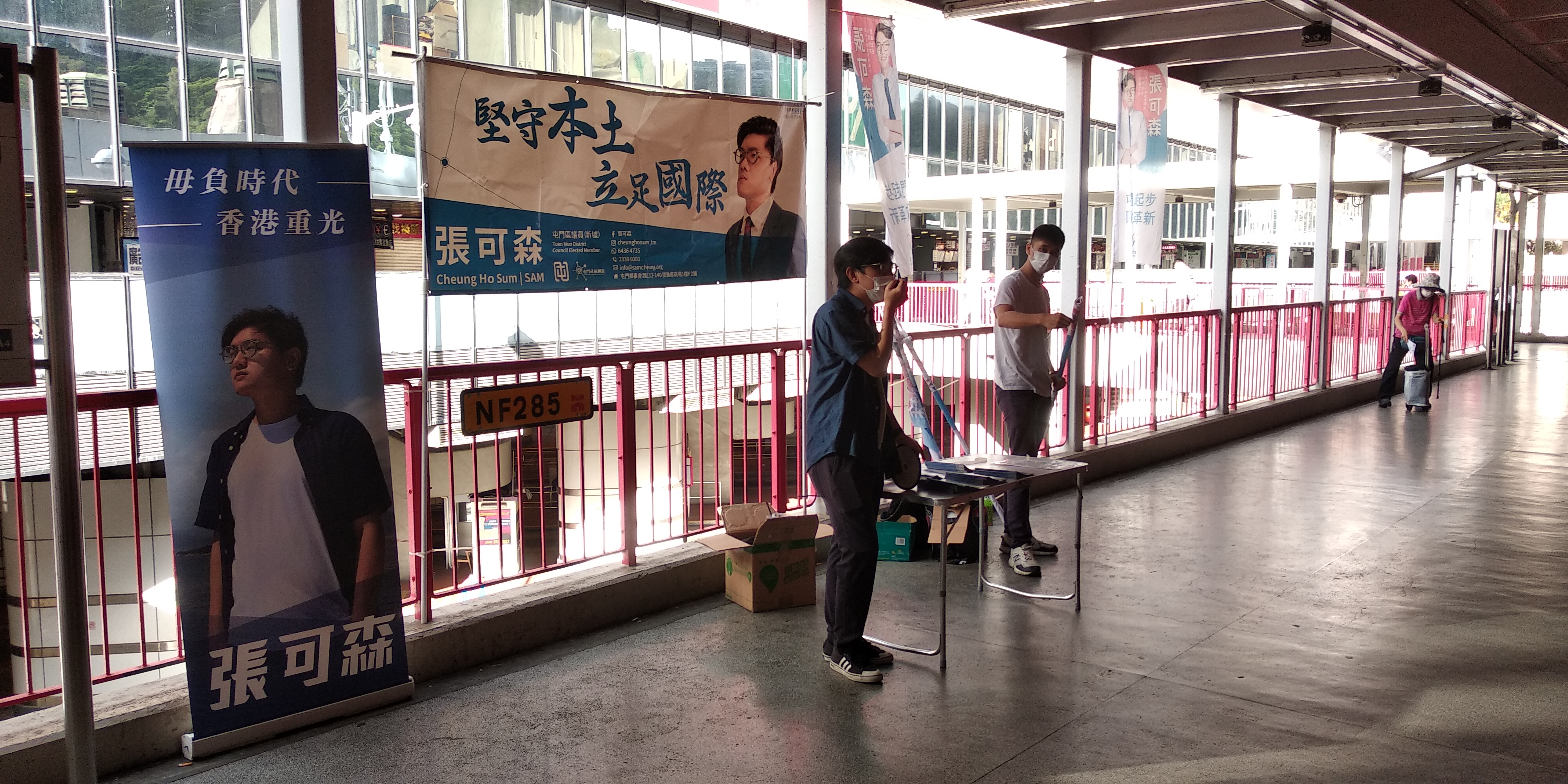 Cheung Ho Sum outside Tsuen Wan Station on 17 June 2020.